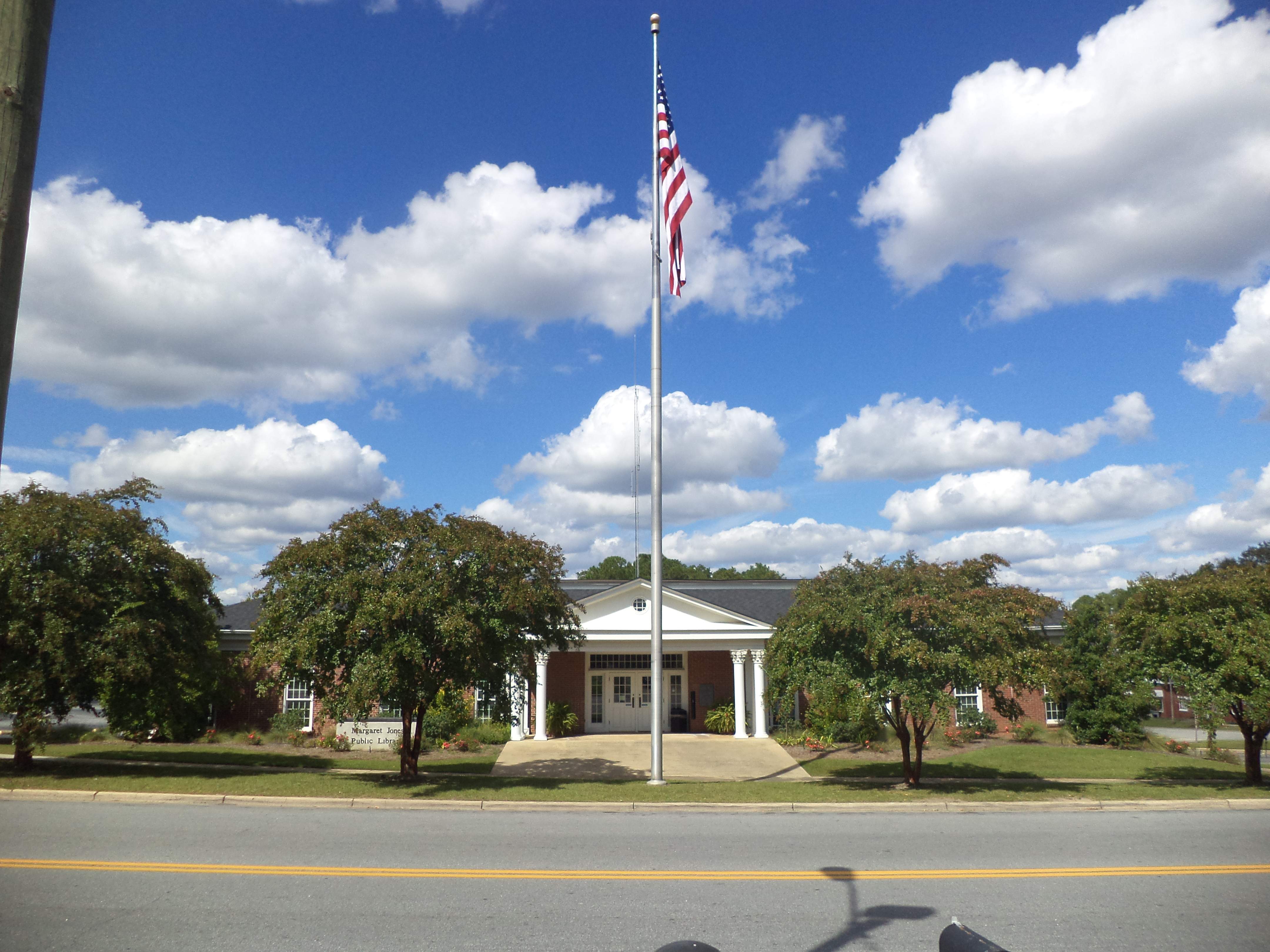 Margaret Jones Public Library, 205 E Pope St, Sylvester, Worth County, Georgia